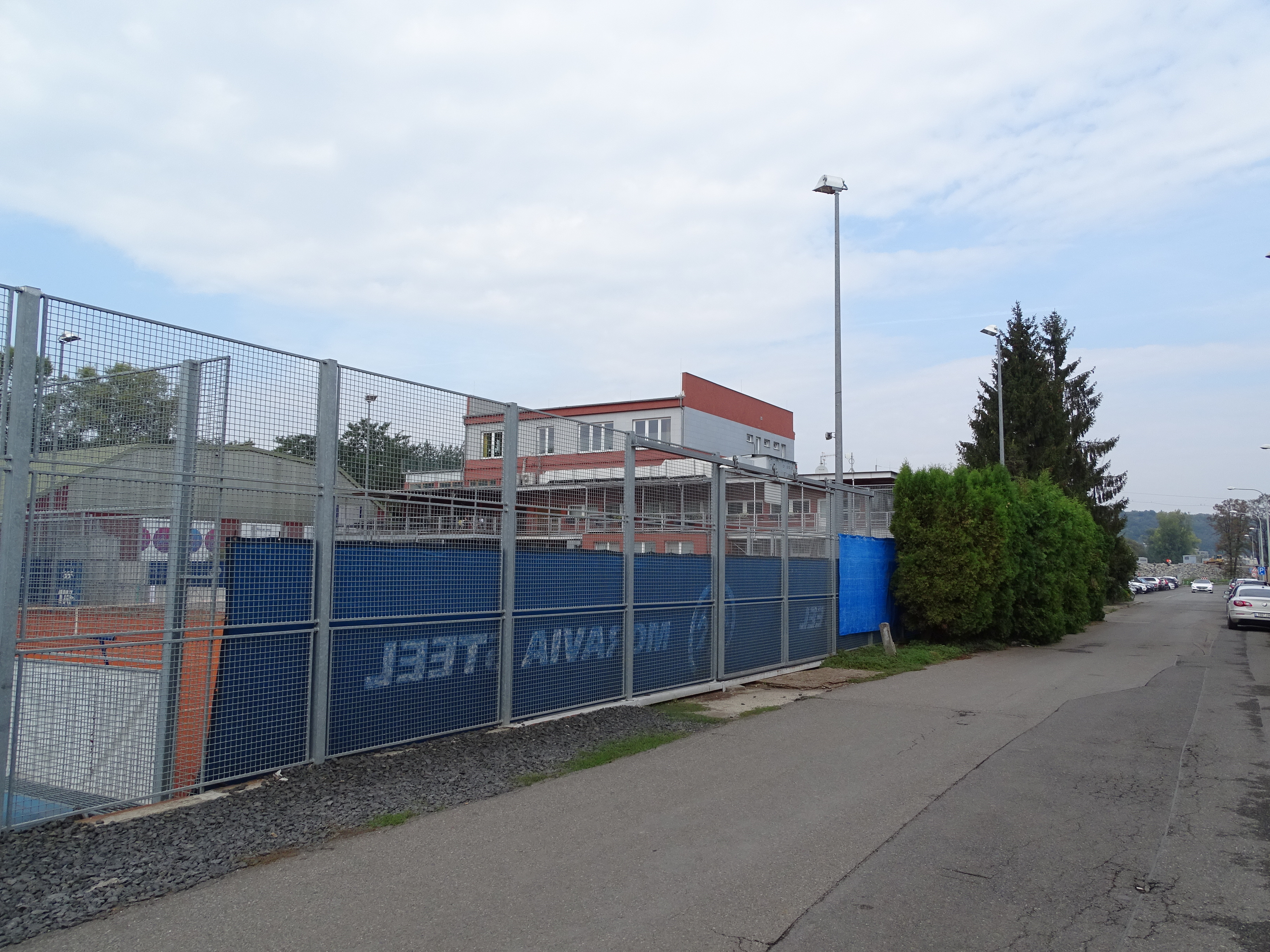 Prague-Bubeneč, Czechia. Za Císařským mlýnem street, Tennis club of Sparta Praha.